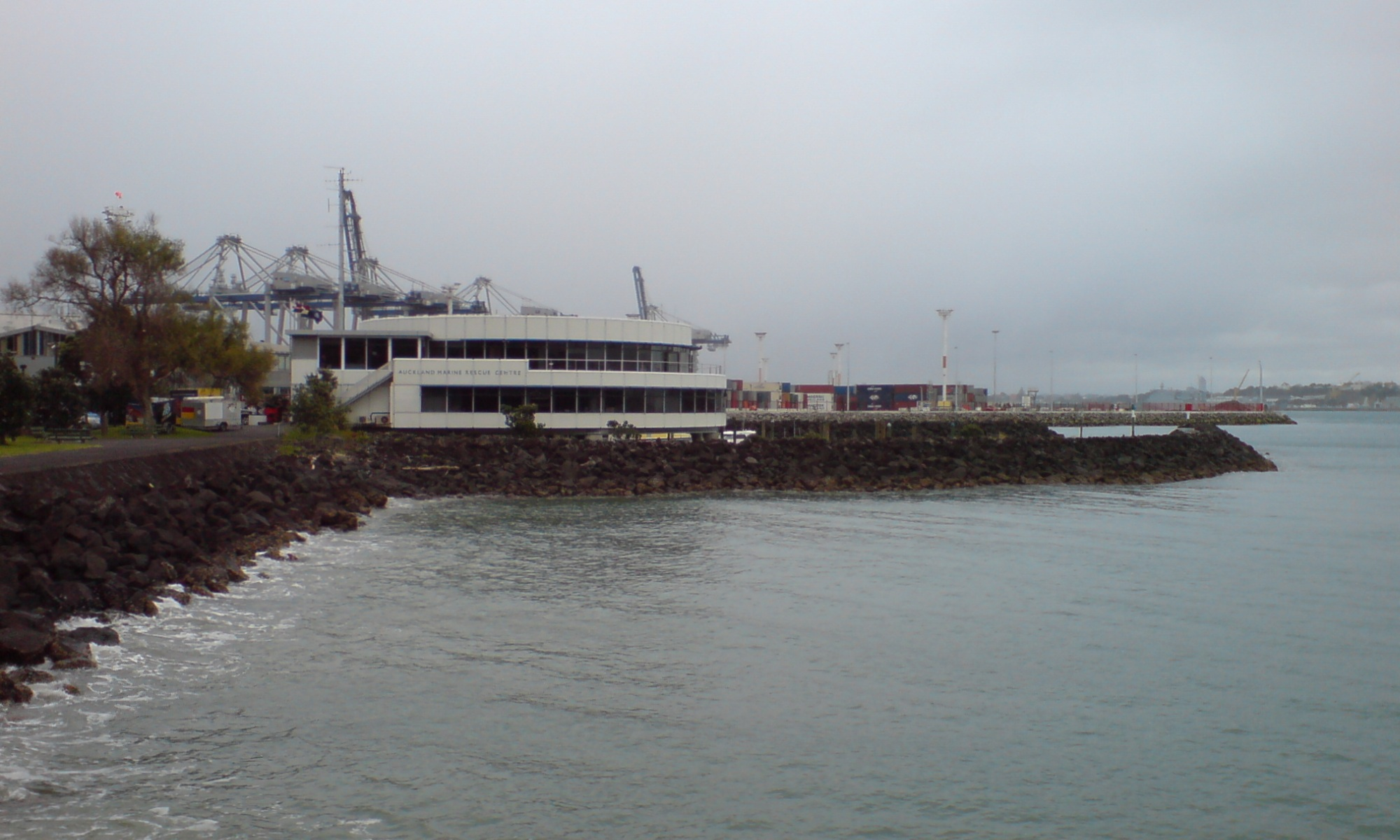 The Auckland Marine Rescue Centre in Auckland City, New Zealand, from the east. The centre is located at the eastern edge of the Ports of Auckland area, and has its own sheltered harbour for emergency craft.